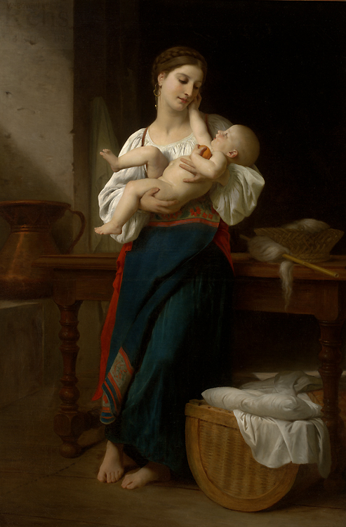 William-Adolphe Bouguereau (1825–1905) Alternative names William Bouguereau Adolphe-William BouguereauDescriptionFrench painterDate of birth/death 30 November 1825 19 August 1905Location of birth/death La Rochelle La RochelleAuthority control : Q483992 VIAF: 41966603 ISNI: 0000 0001 2129 8561 ULAN: 500011205 LCCN: n85059001 WGA: BOUGUEREAU, William-Adolphe WorldCat creator QS:P170,Q483992